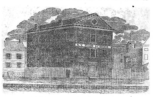 Depiction of New York High School (1829), appearing in the June 6, 1829 issue of The Cabinet of Instruction, Literature, and Amusement